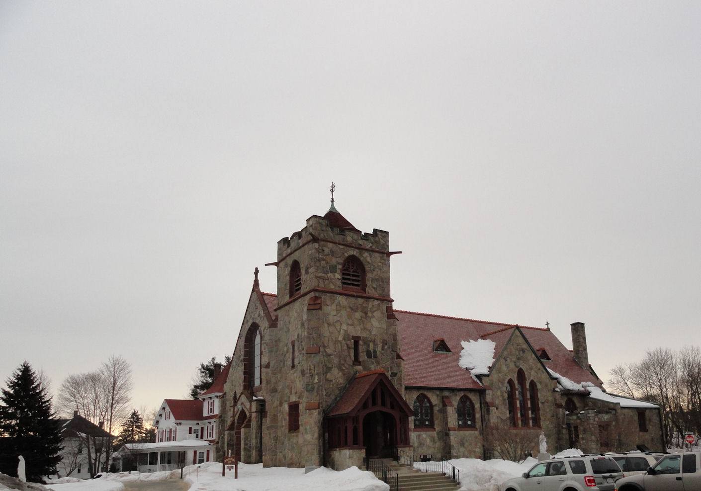 Immaculate Conception Church, North Easton MA Murphy, Hindale and Wright aechitects